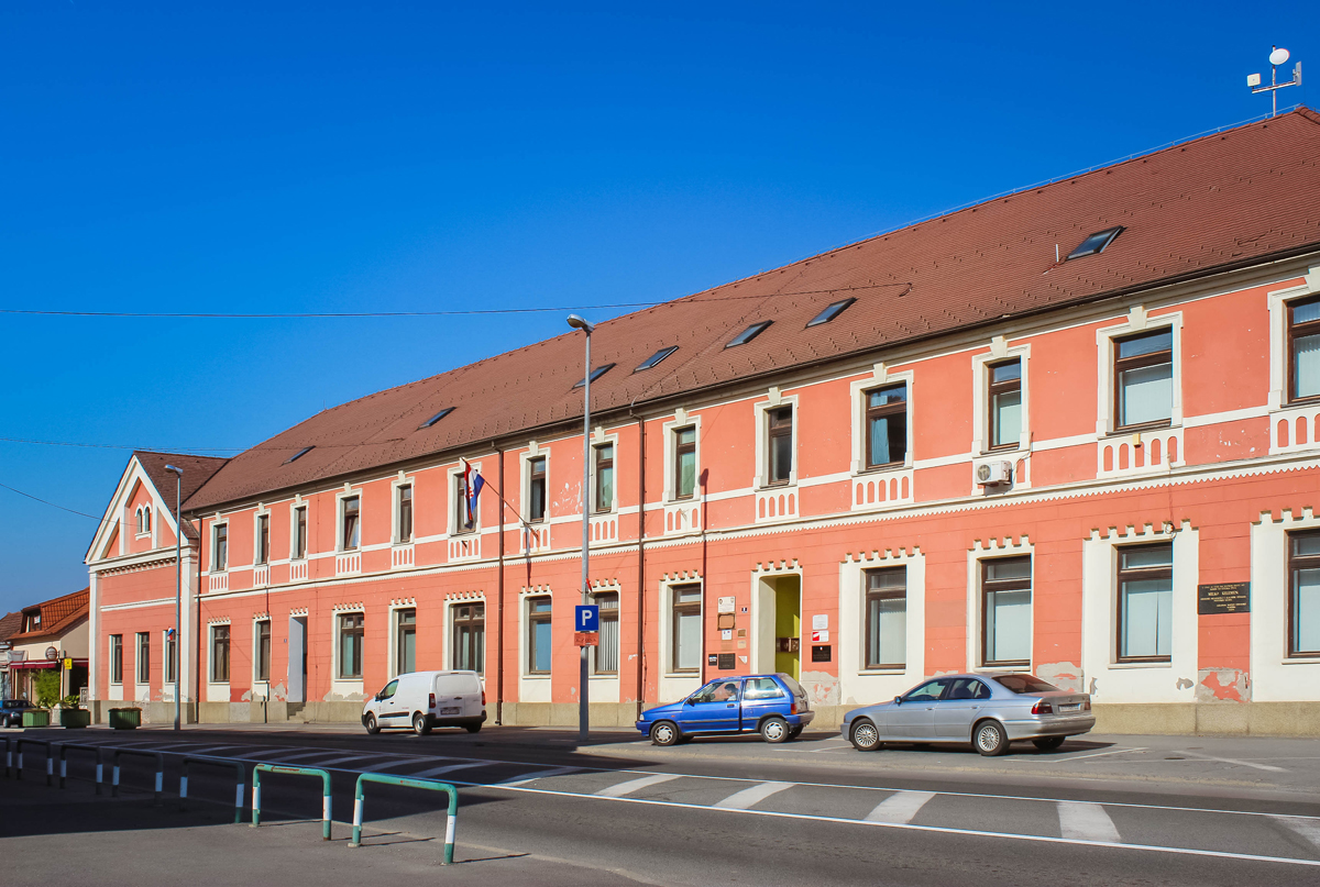 School